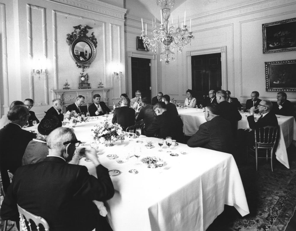 Luncheon for Colorado publishers and editors at the White House with President John F. Kennedy, June 22, 1962.